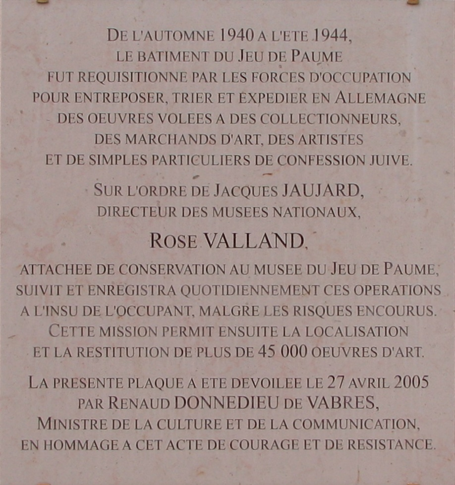 Commemorative tablet for Rose Valland on the wall of the Galerie nationale du Jeu de Paume in Paris